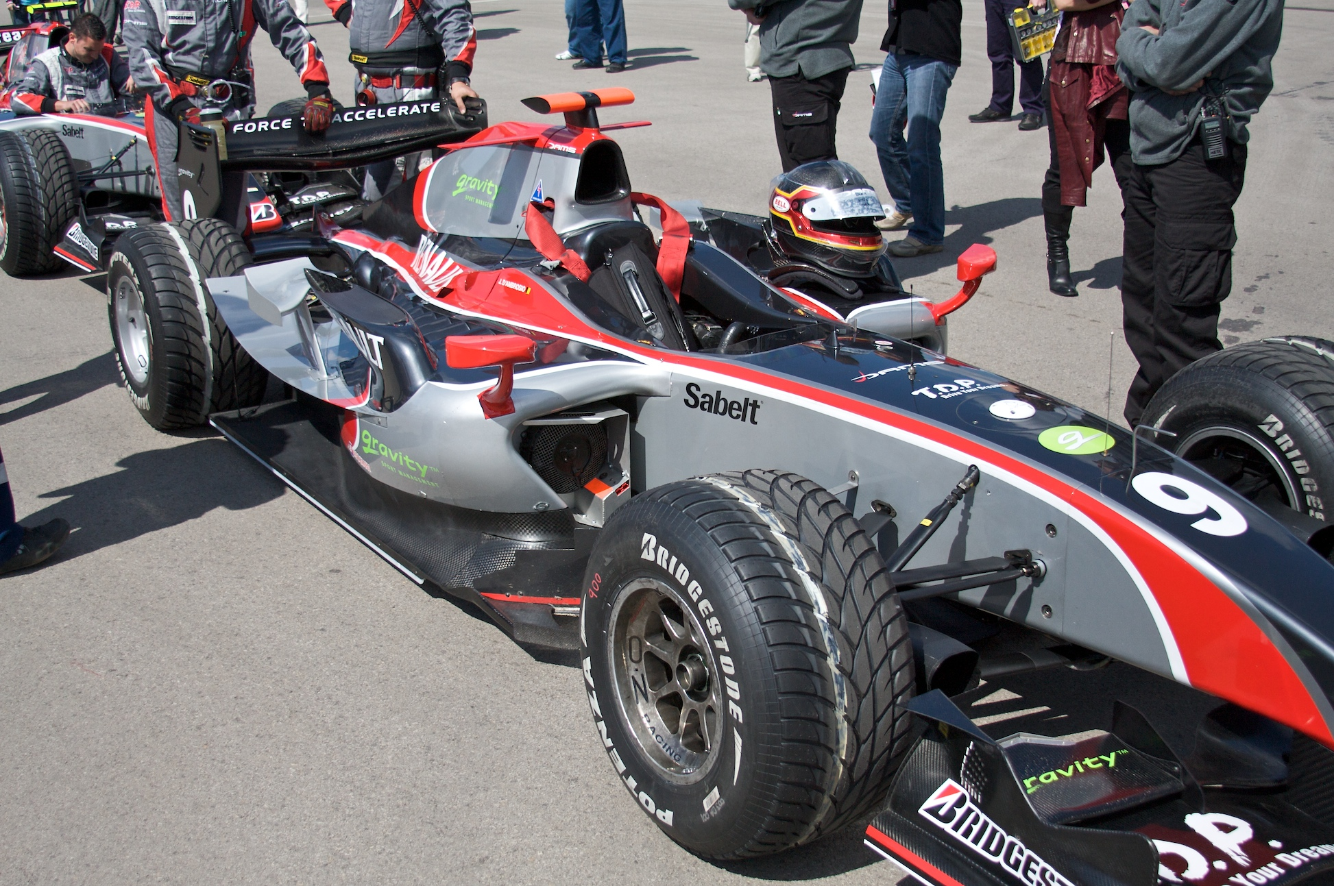 Jérôme d'Ambrosio's car and helmet at the Turkish round of the 2008 GP2 Series season.